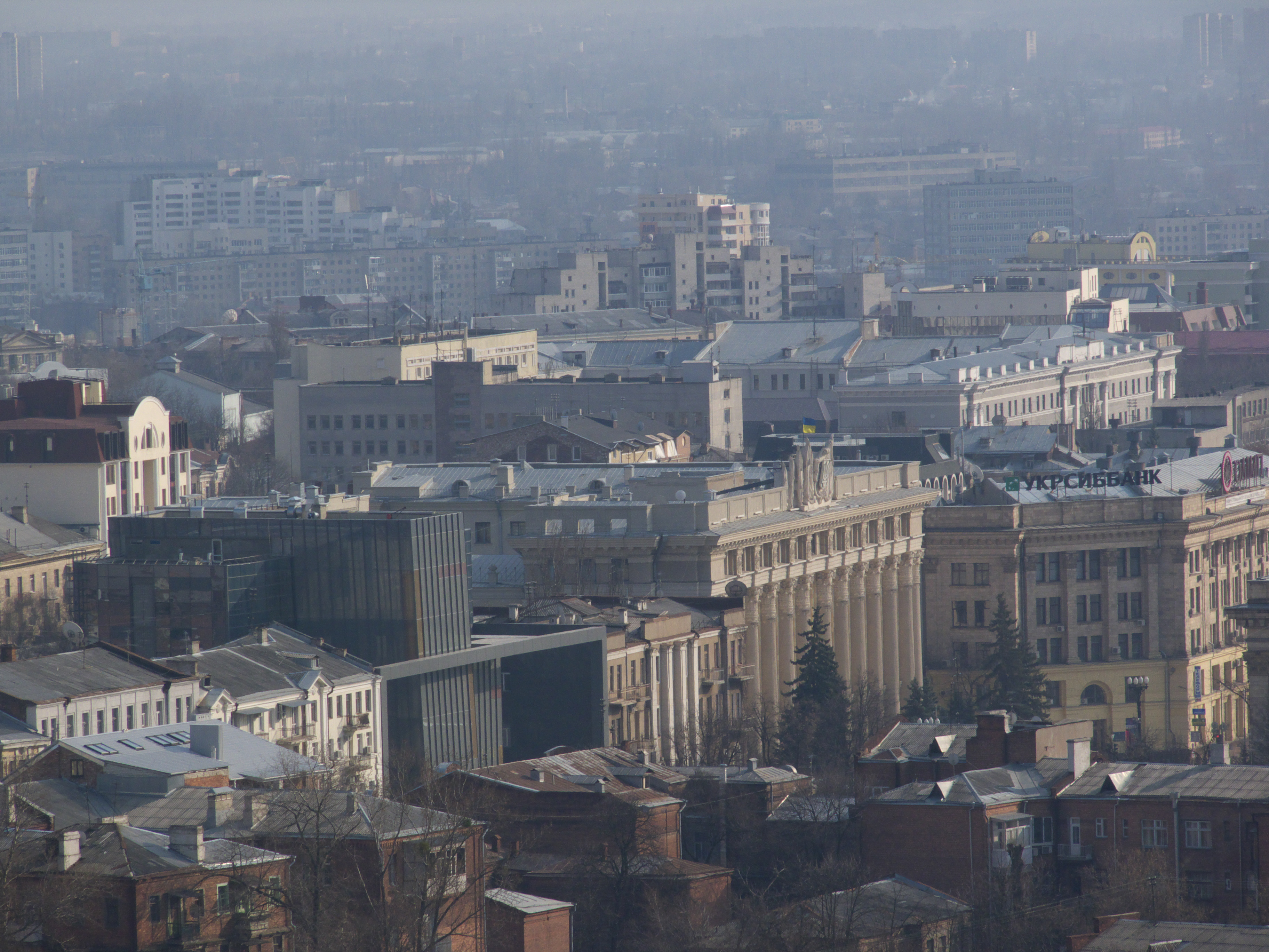 Kharkov Oblsovet and Sumskaya Street in Kharkov.